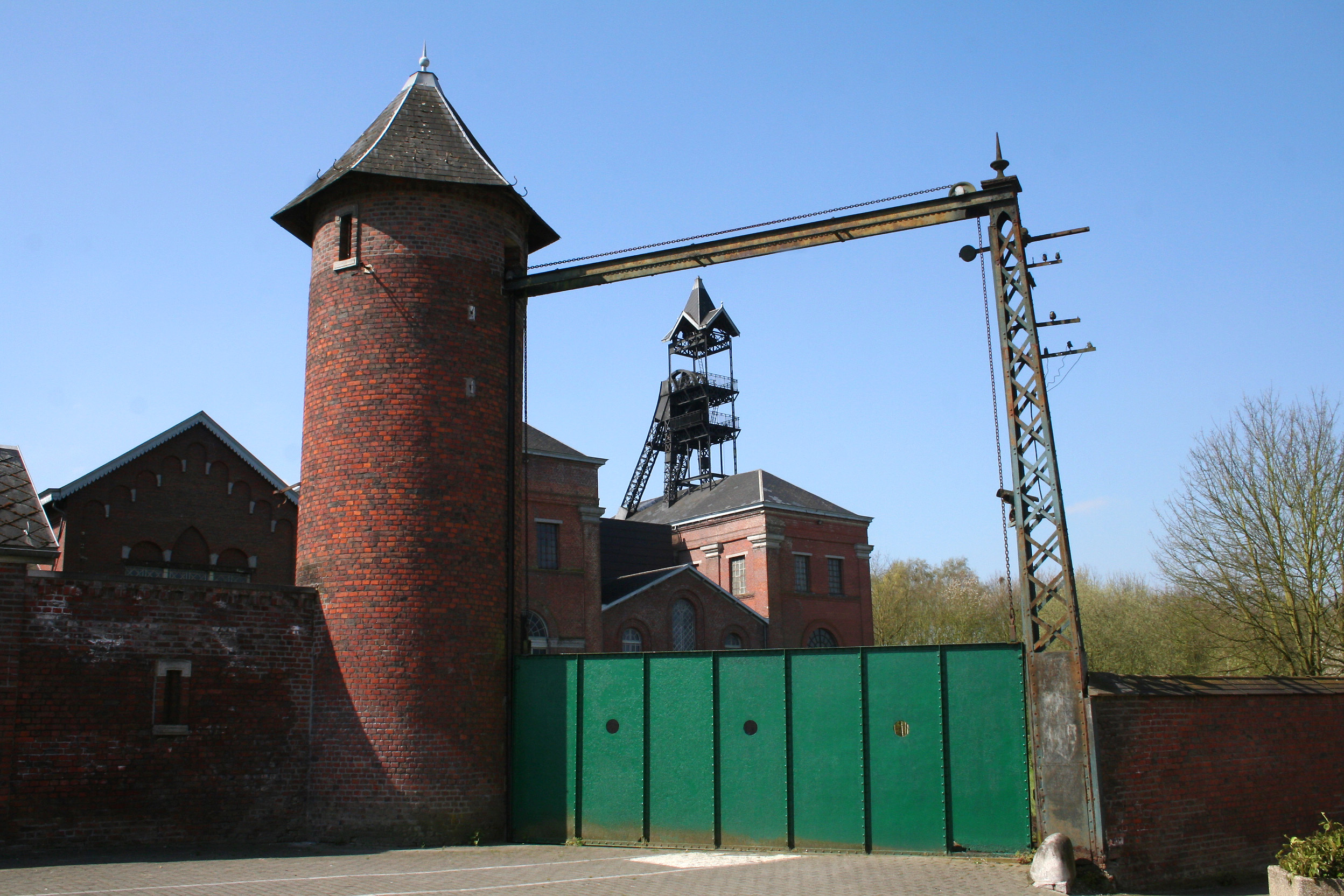 Houdeng-Aimeries (Belgium), tower of the porch and the winding tower (1913) of the «Bois-du-Luc» coal mine. Walon: Oudè (Bèljike), toûr do pwatche èt chassis à molètes (1913) do tchèrbonadje do « Bwès-do-Luc ».